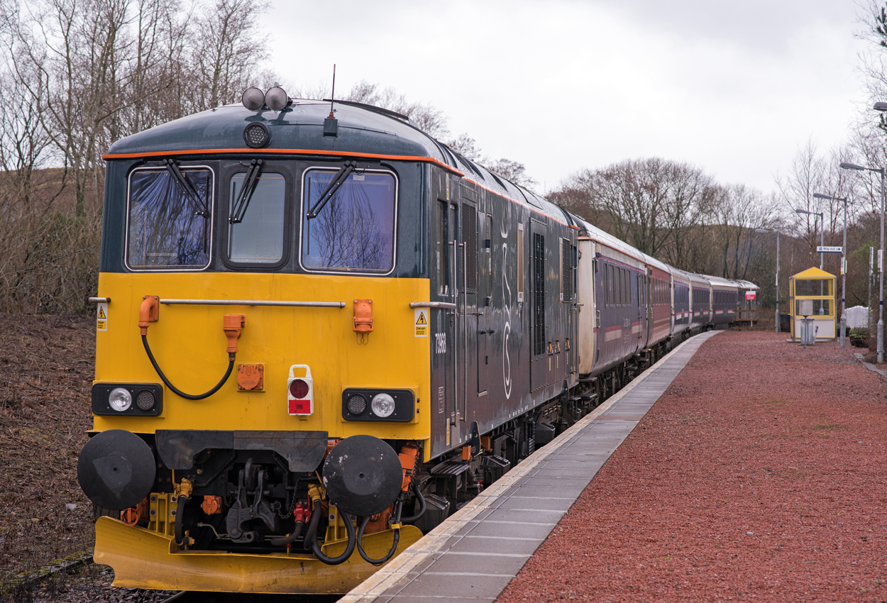 Highlander sleeper diverted to Oban - February 2016 (5)